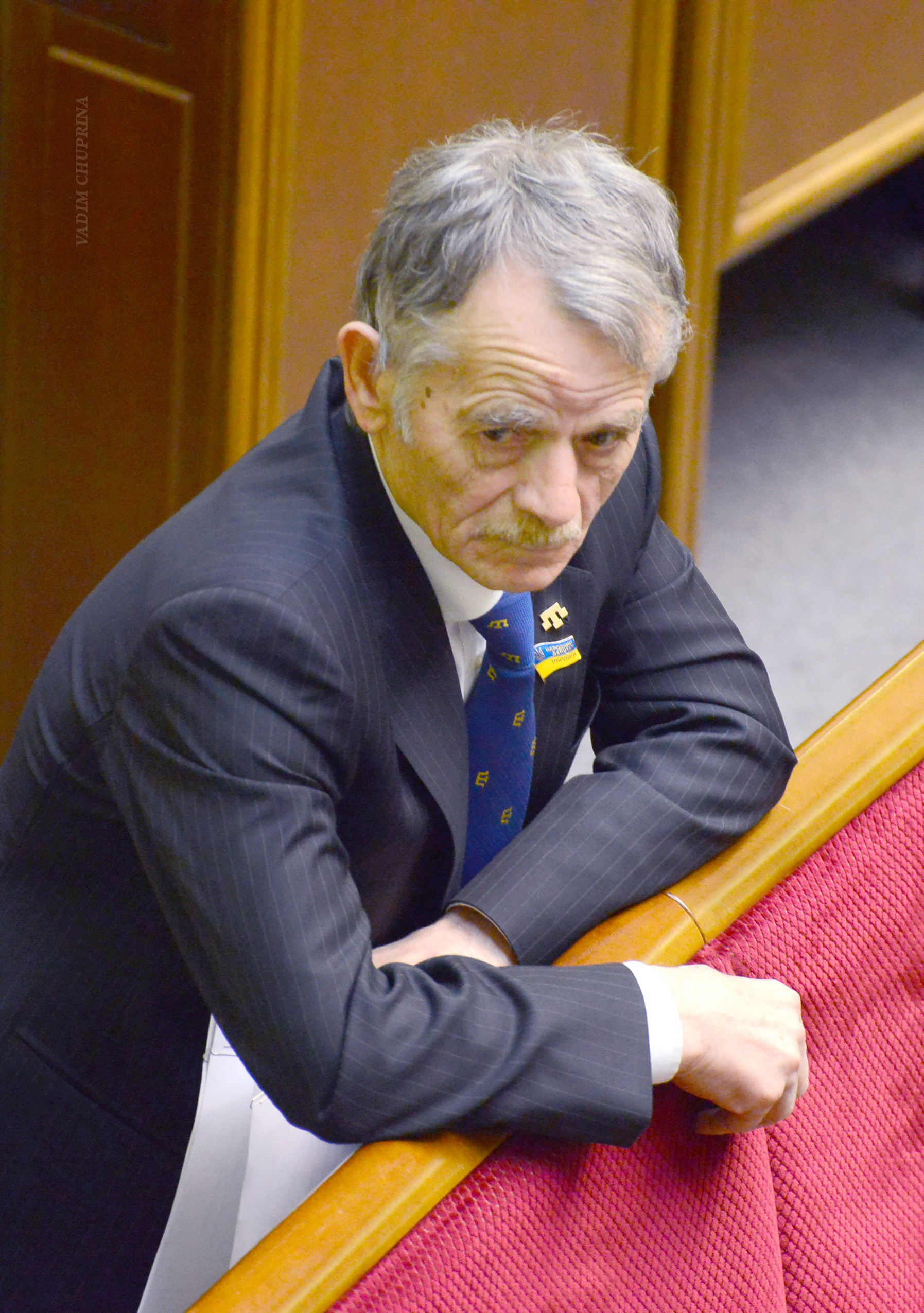 Ukrainian politicians VADIM CHUPRINA